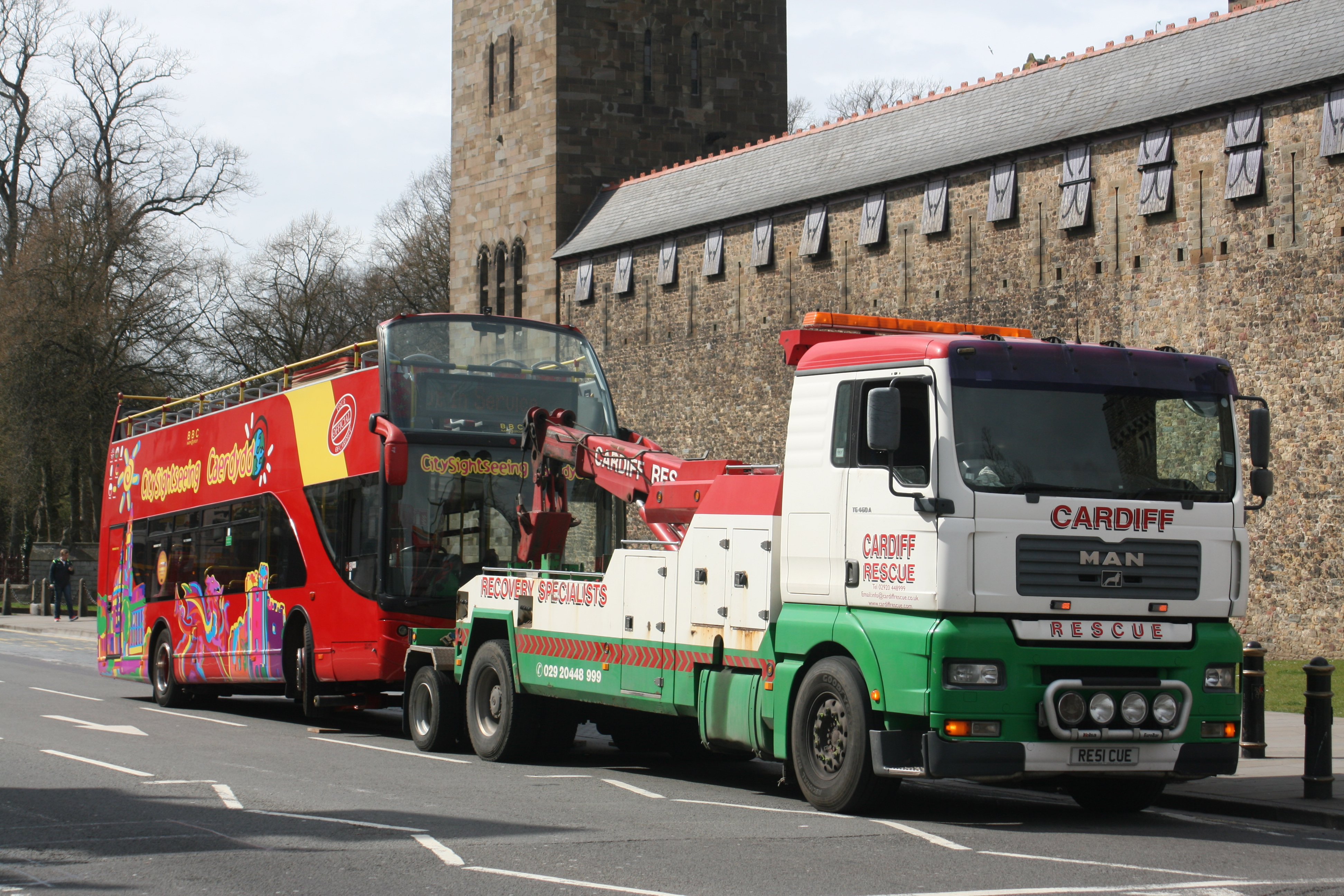 Broken down ... Cardiff, 12th April